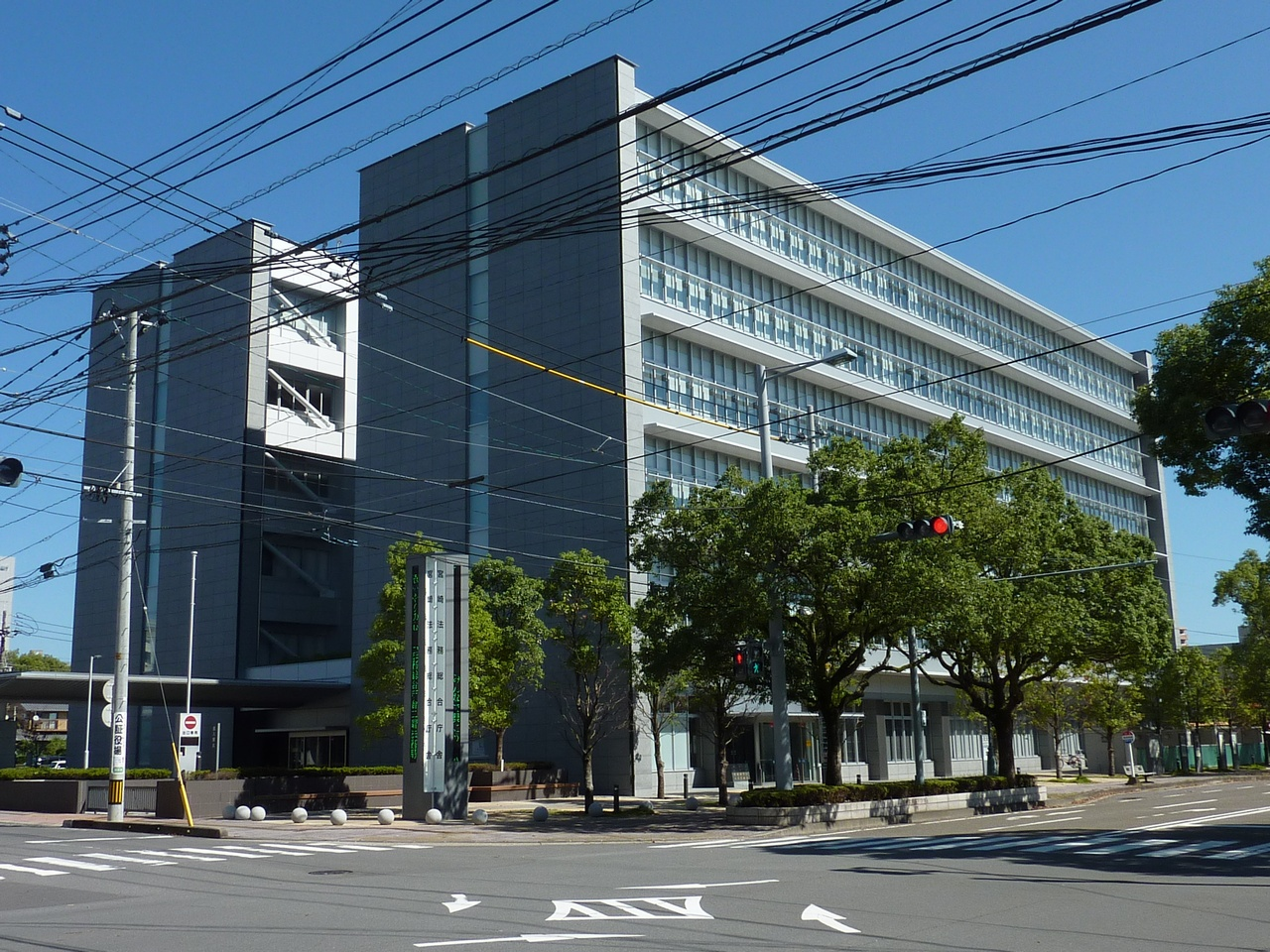 Miyazaki Judicial Union Office (Miyazaki City, Japan)